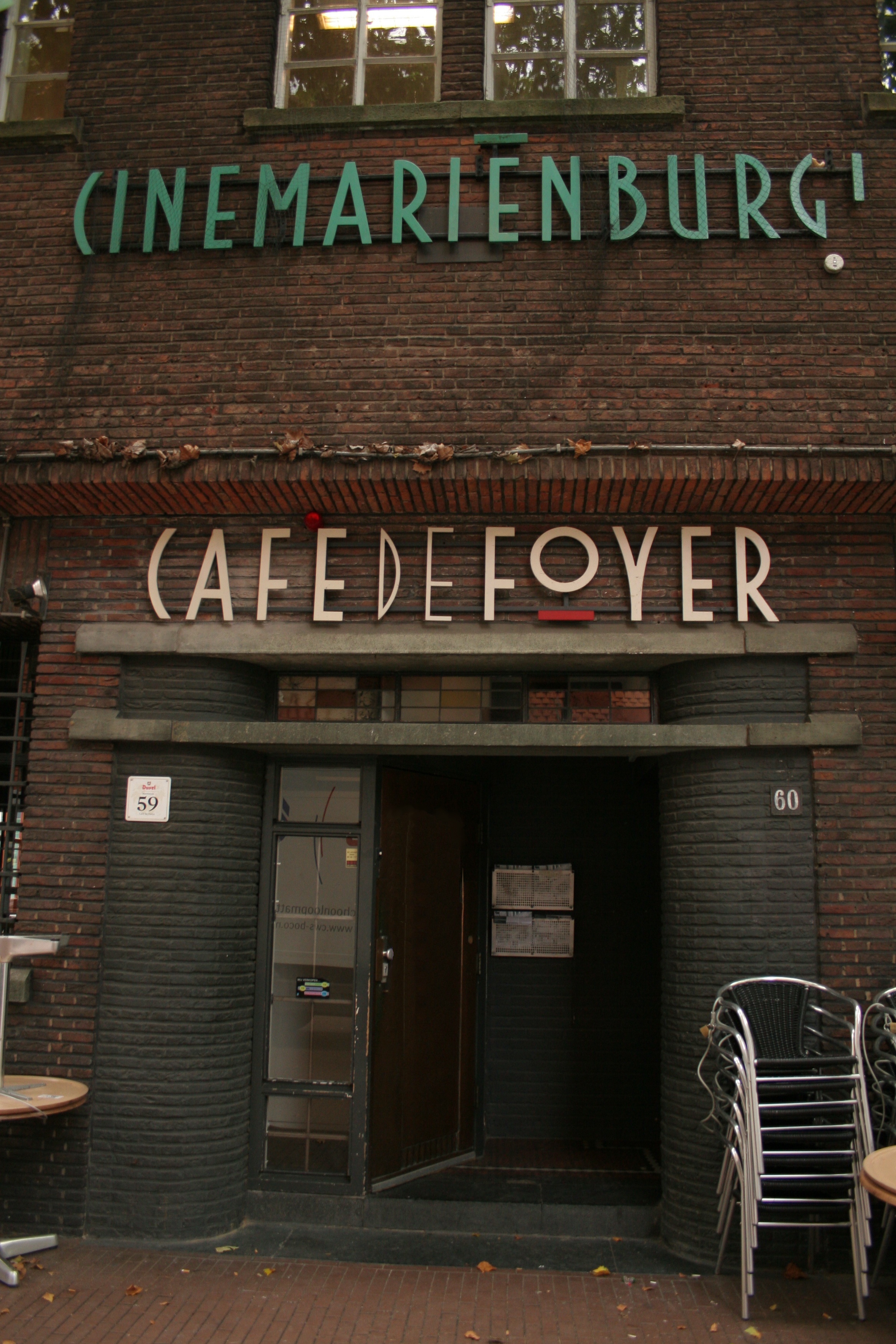 movie theater cinemarienburg nijmegen